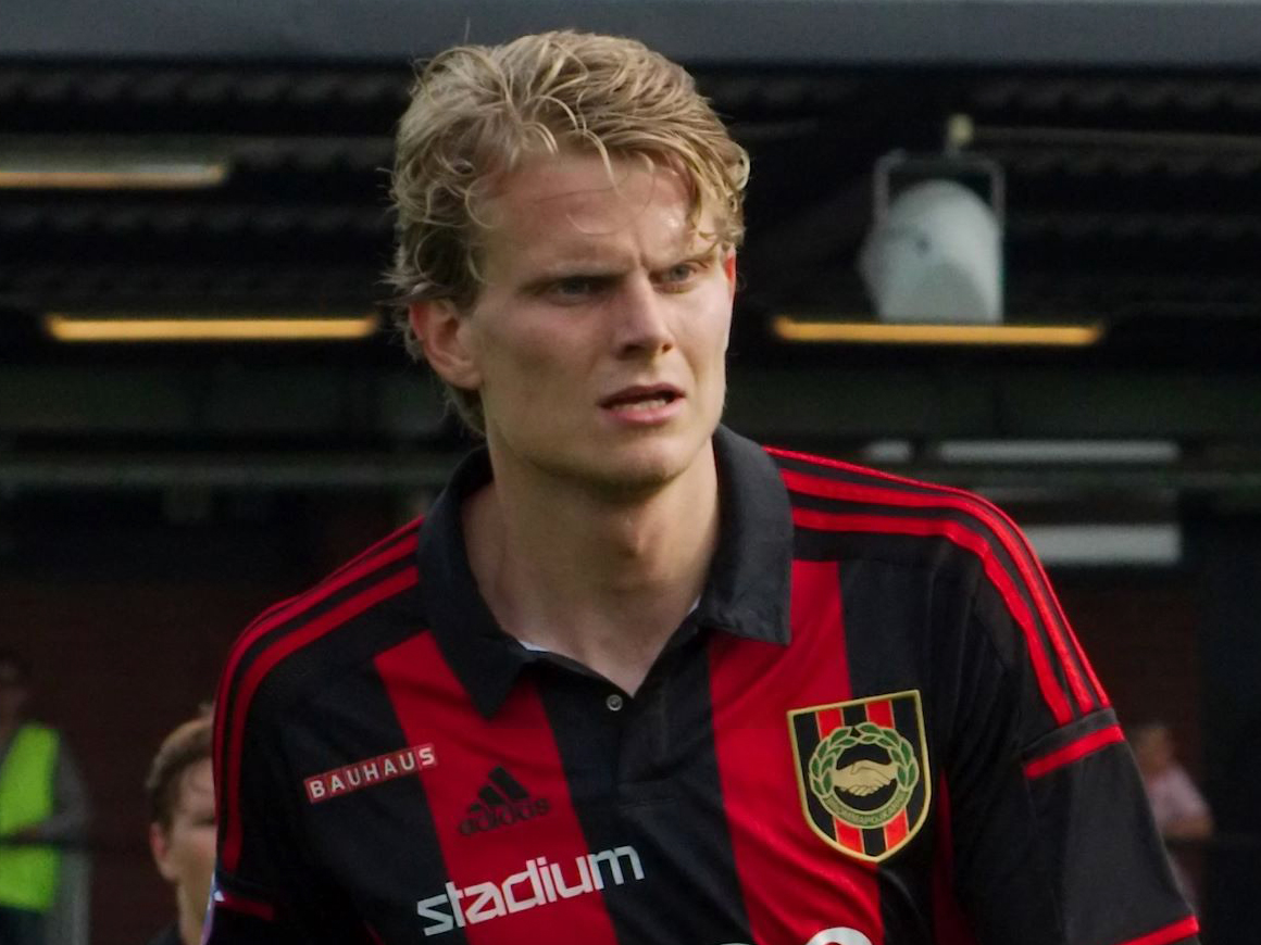 Allsvenskan IF Brommapojkarna-Malmö FF at Grimsta IP